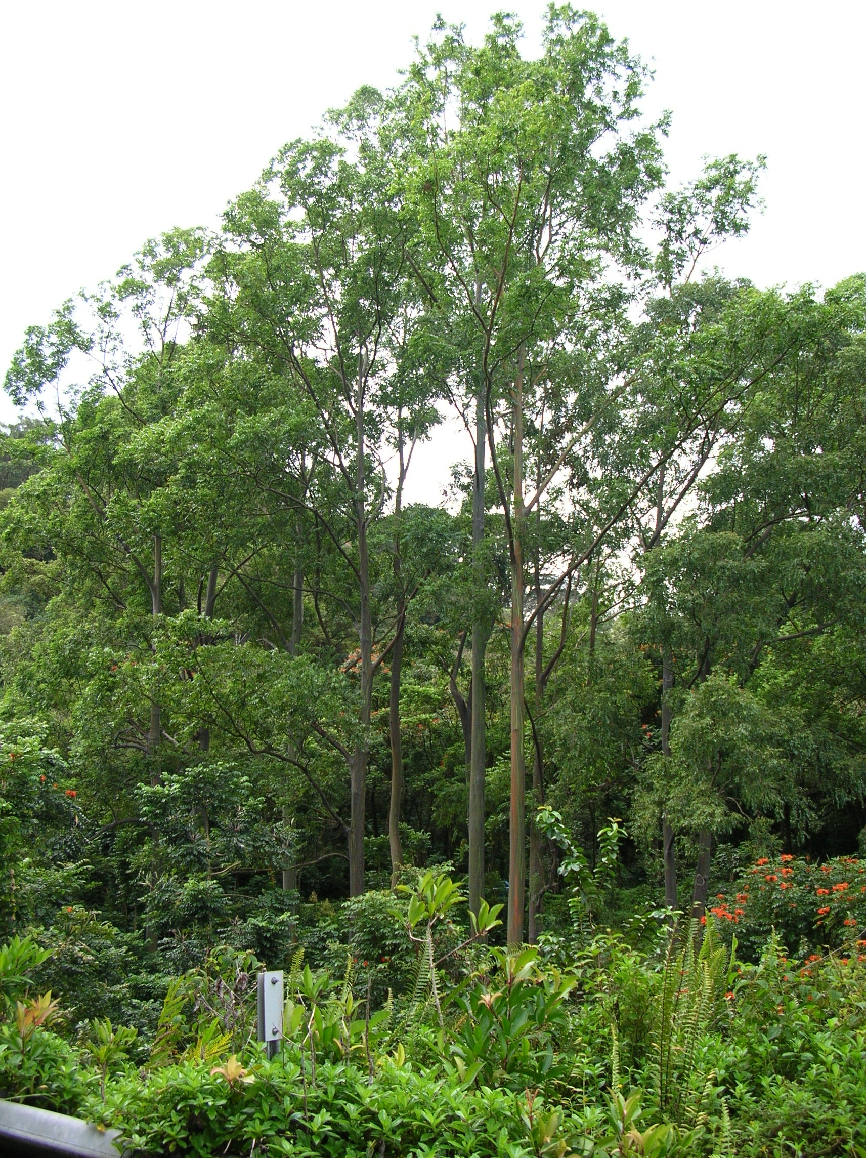 Eucalyptus deglupta (habit). Location: Maui, Hana Hwy